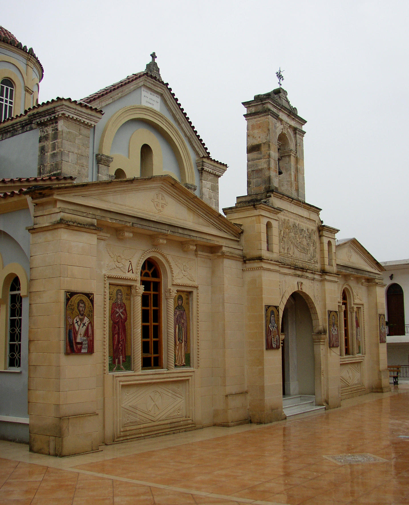 Panagia Kaliviani east of Phaistos, Crete, Greece